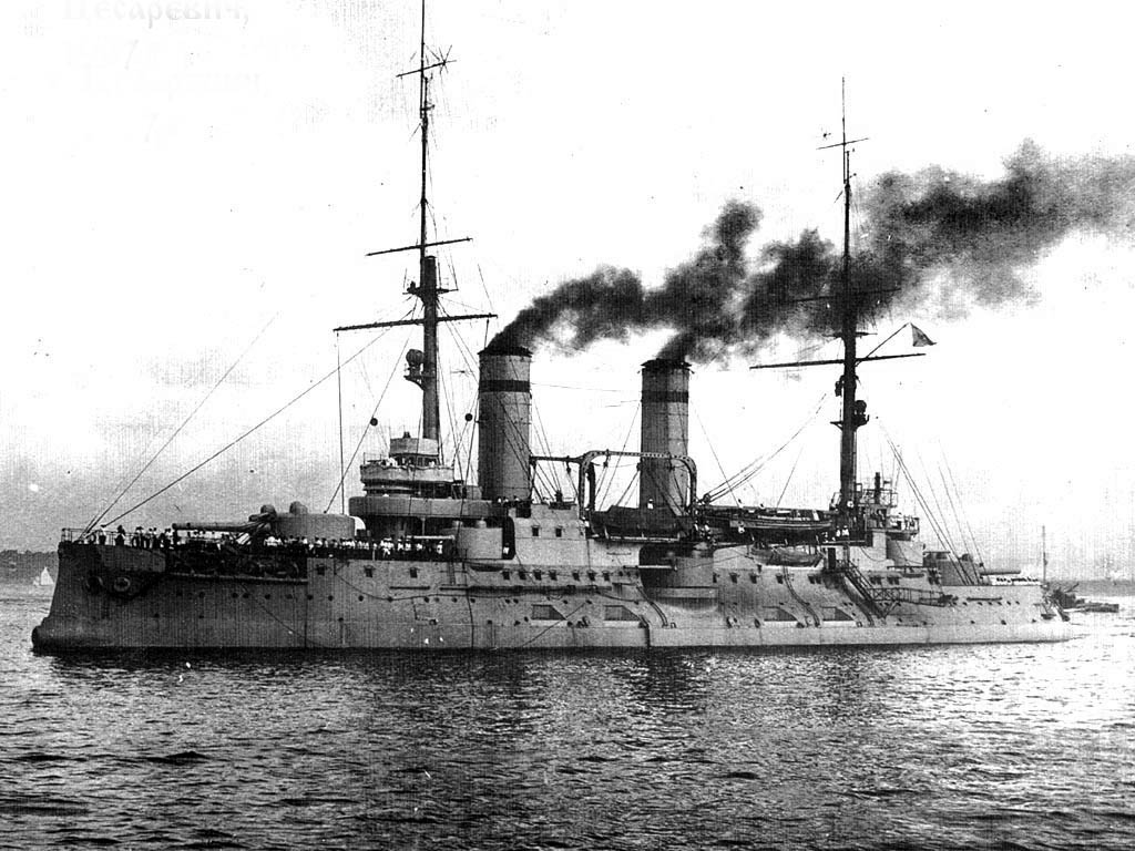 Imperial Russian battleship Tsesarevich, 1912-1914.